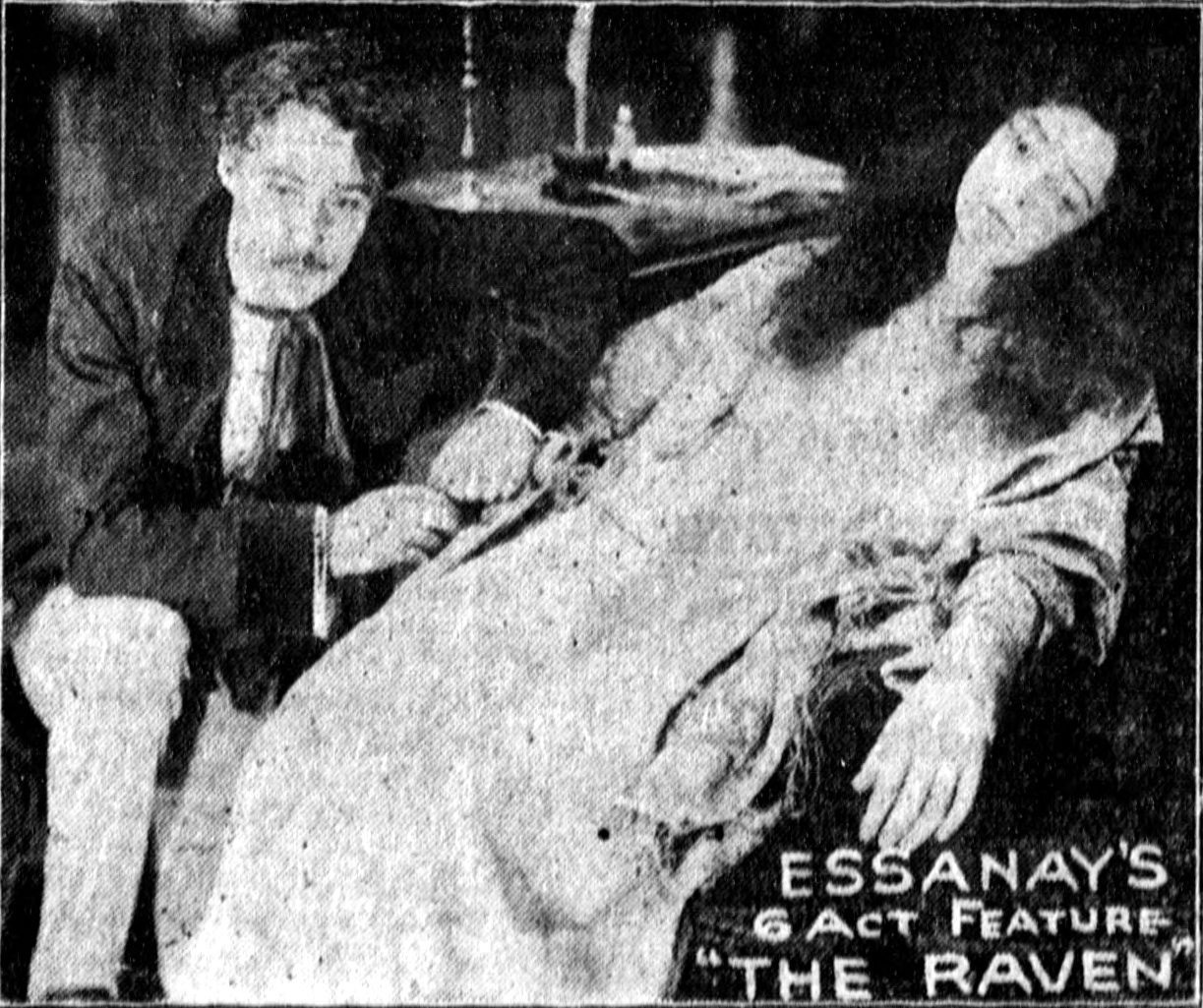 The Raven is a stylized silent 1915 film biography of Edgar Allan Poe starring Henry B. Walthall as Poe. This is a publicity image of a scene from the movie, found in a contemporary newspaper.